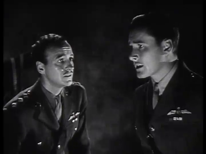 Errol Flynn and David Niven in The Dawn Patrol, film by Edmund Goulding (1938)